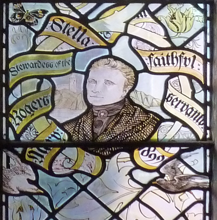 One of a set of windows on the staircase leading to the Lady Chapel in Liverpool Anglican cathedral. They commemorate the lives of 'noble women', who have made some significant contribution to the world in the service of others. The windows combine portraits of well-known heroines like Grace Darling, shown here but also honour more obscure women, who may only have been known locally or in their own time. These include, in this particular window, Mary Rogers, a stewardess who made a personal sacrifice during a shipwreck in 1899, Kitty Wilkinson, a local laundress, who set up an early wash house in Liverpool in 1842 and Agnes Jones, the first trained nurse at the local workhouse infirmary, who looked after the sick and the poor of Liverpool and herself died of typhus, caught during her nursing duties.